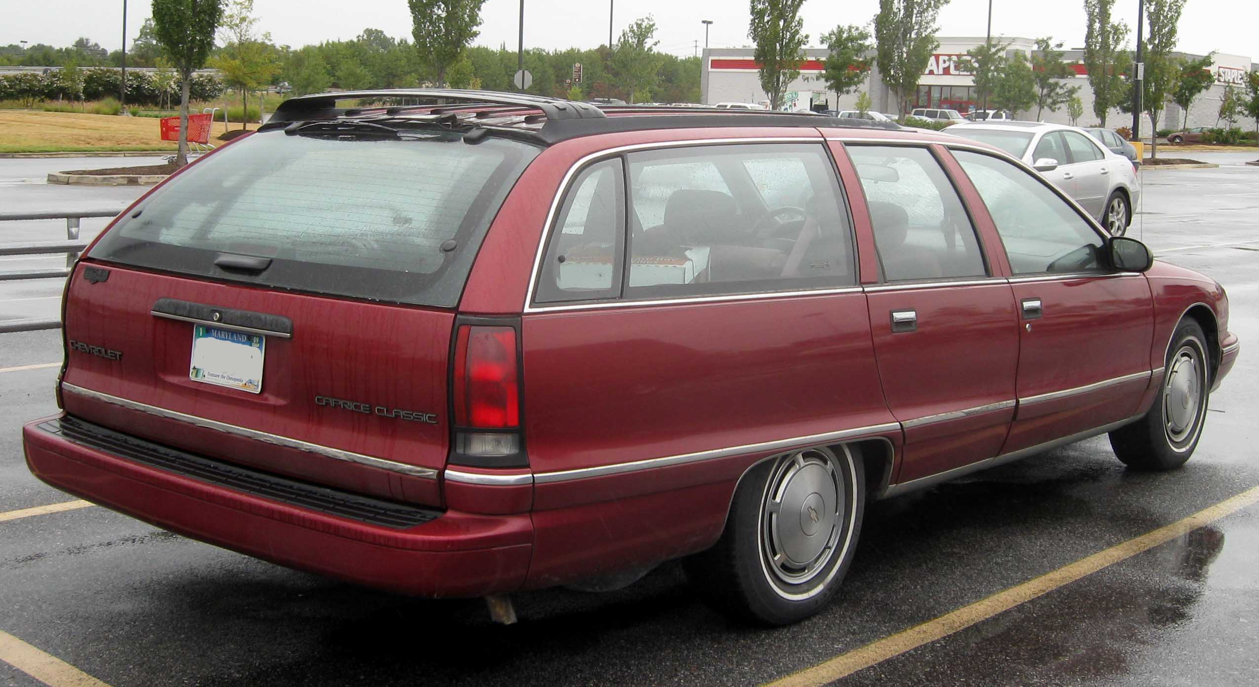 1995-1996 Chevrolet Caprice wagon photographed in Clinton, Maryland, USA.